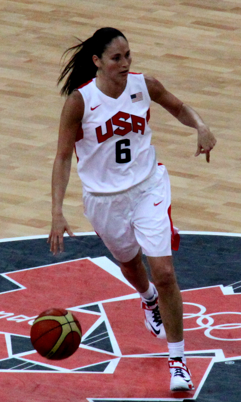 Sue Bird at the 2012 Summer Olympics in London